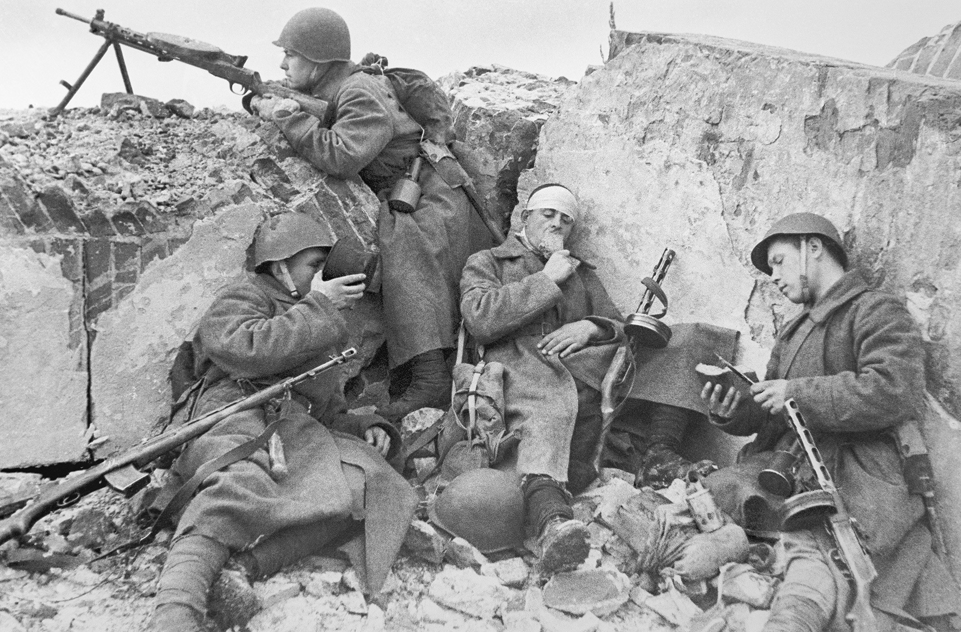 “Great Patriotic War”. World War II. Soldiers of the Byelorussian Front during a short respite after fighting.